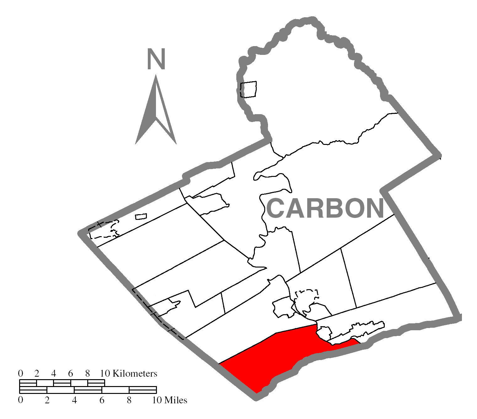 A map of Carbon County showing East Penn Township, Pennsylvania (alternate) highlighted on the map.